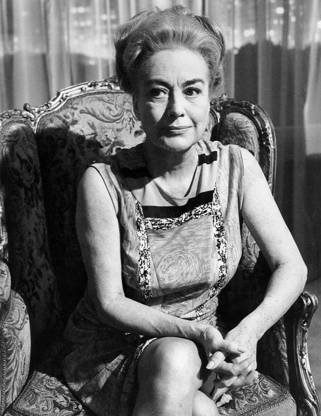 Photo of Joan Crawford from the made for television film which was the beginning of the television series Night Gallery. This was one of the last performances of Crawford.